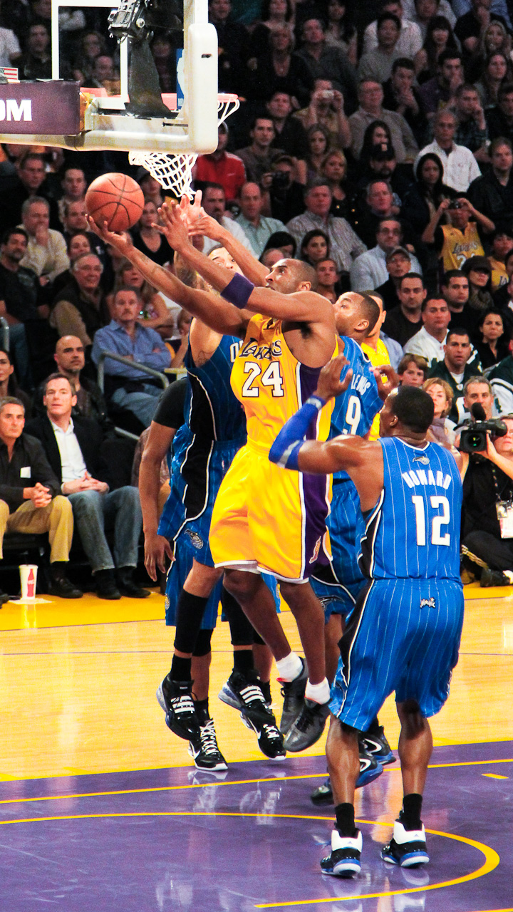 Kobe Bryant goes in for a layup against the Orlando Magic.